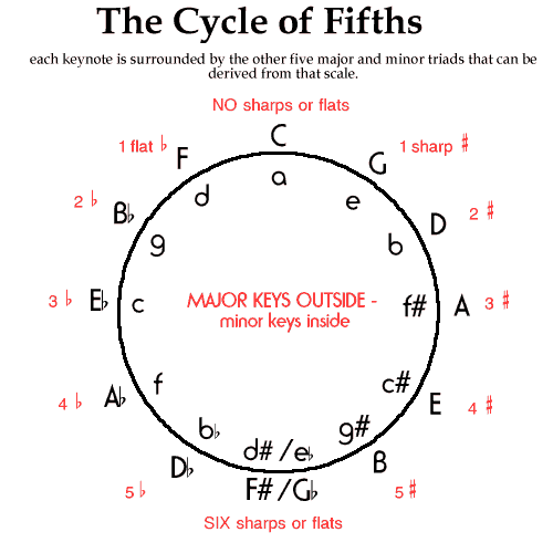 A diagram of the key relations in western harmony.